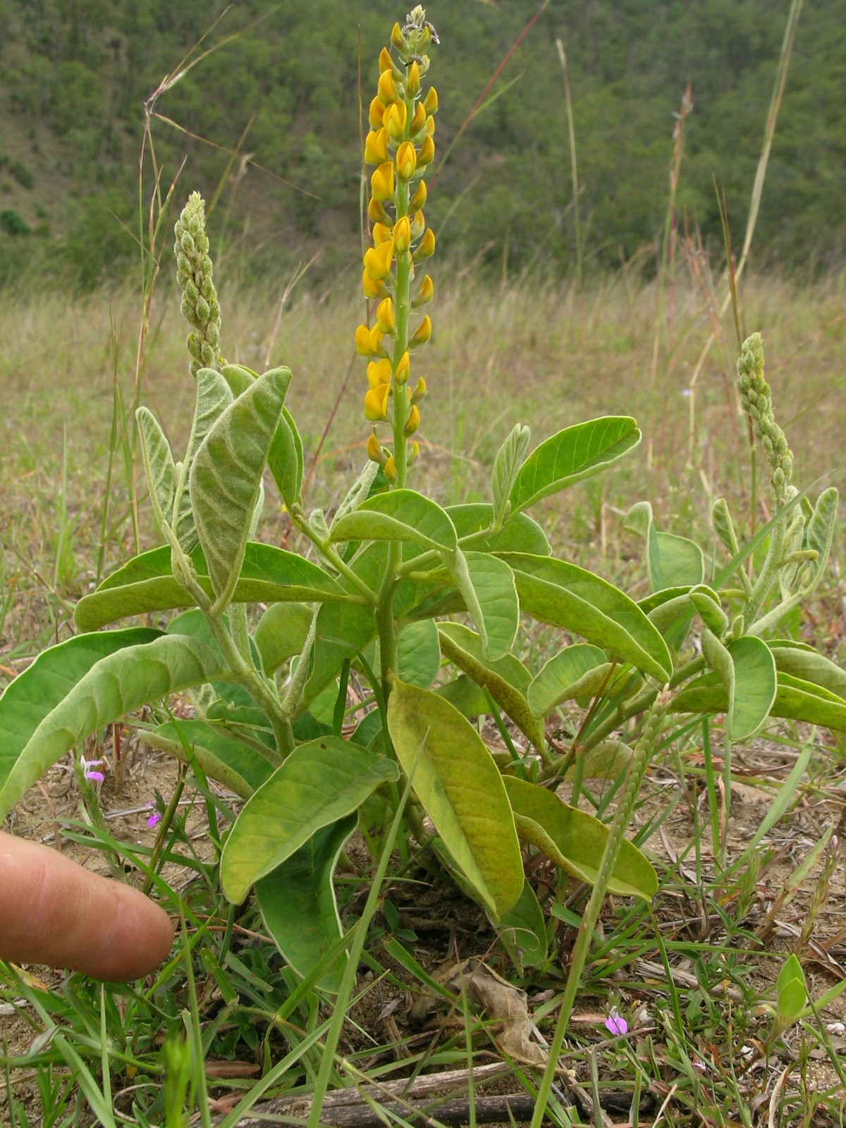 Native, warm-season, perennial, erect, woody legume 60-100 cm tall. Leaves are elliptical, slightly to very hairy and 4-8 cm long. Flowerheads are racemes to 20 cm long; with 20-40 crowded, deep yellow, pea-like flowers. Fruit are 20-30 mm long, inflated, oblong pods that hang downwards on the stem. Flowering is from summer to winter. Subspecies mitchelli (this one) is mostly found on the North Coast of NSW. Found in pastures and on river flats with sandy or granitic soils. Native biodiversity. Has moderate levels of toxic alkaloids, so could poison stock if it was abundant, but is rarely so.